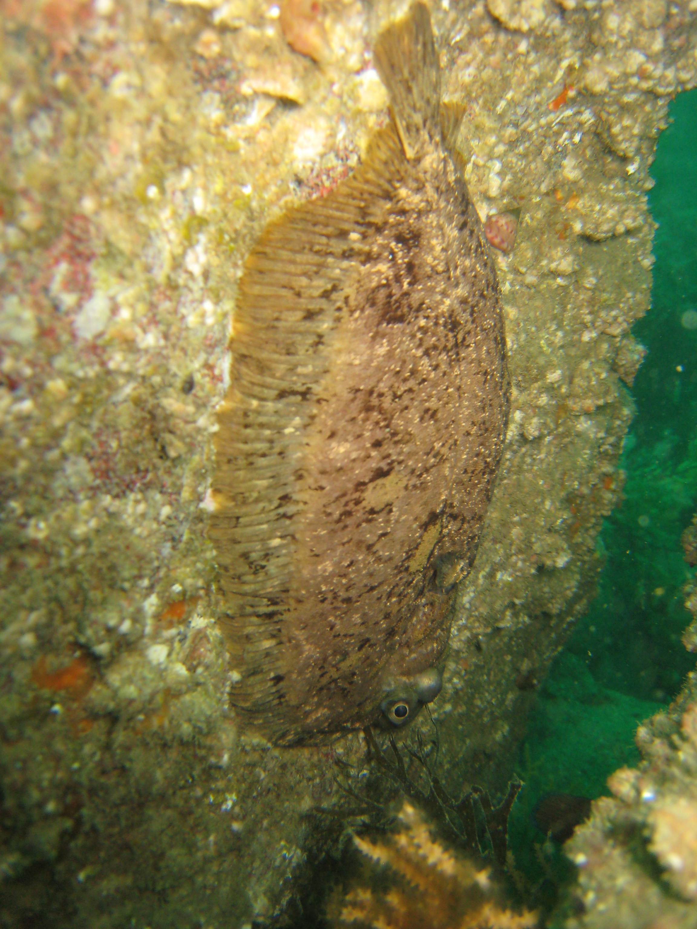 Zeugopterus_punctatus in Saint-Quay-Portrieux